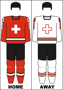 The home and away jerseys of the Swiss national ice hockey team.